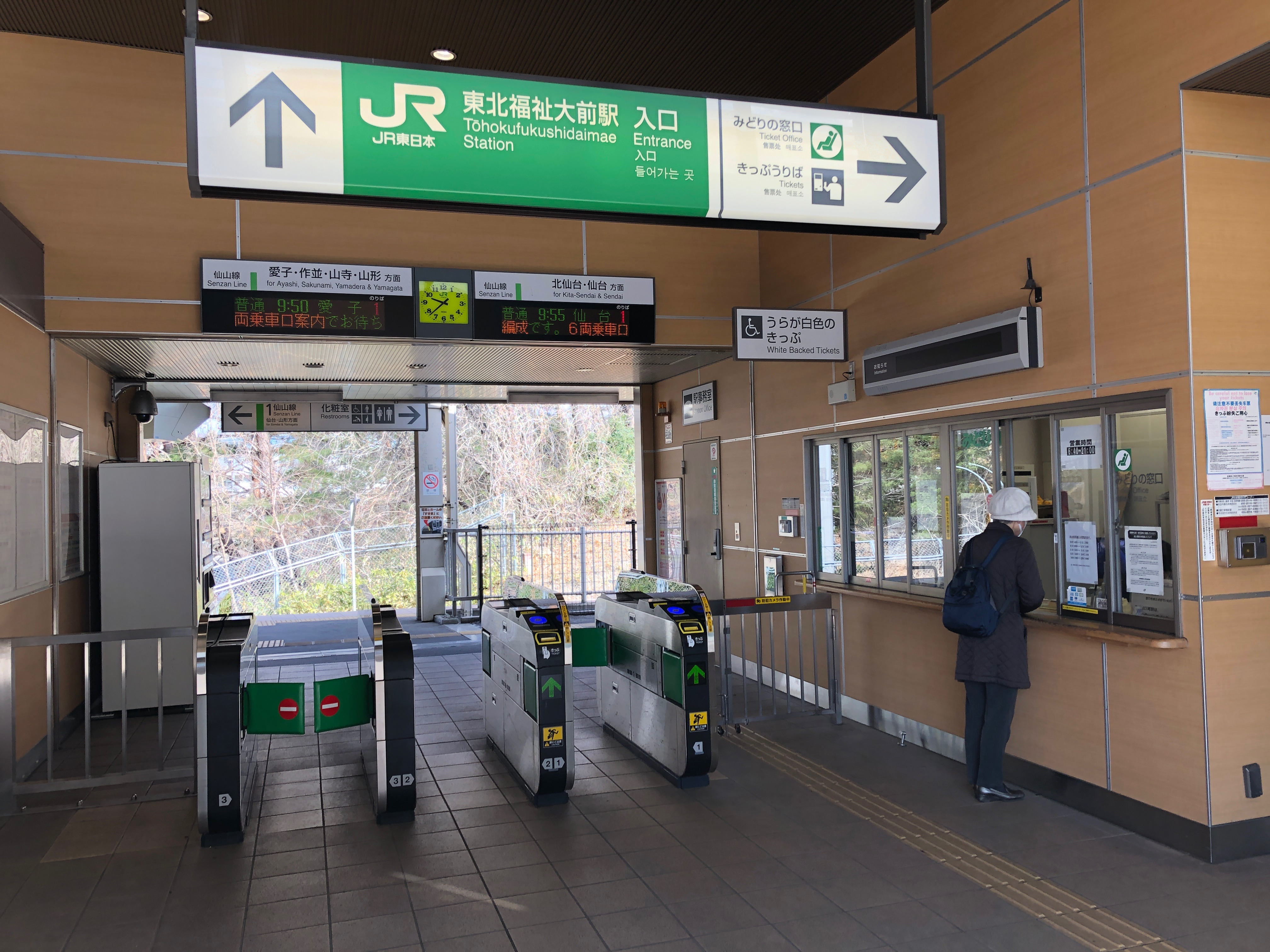 Tohoku Fukushi University Station building interior showing gateline and ticket office